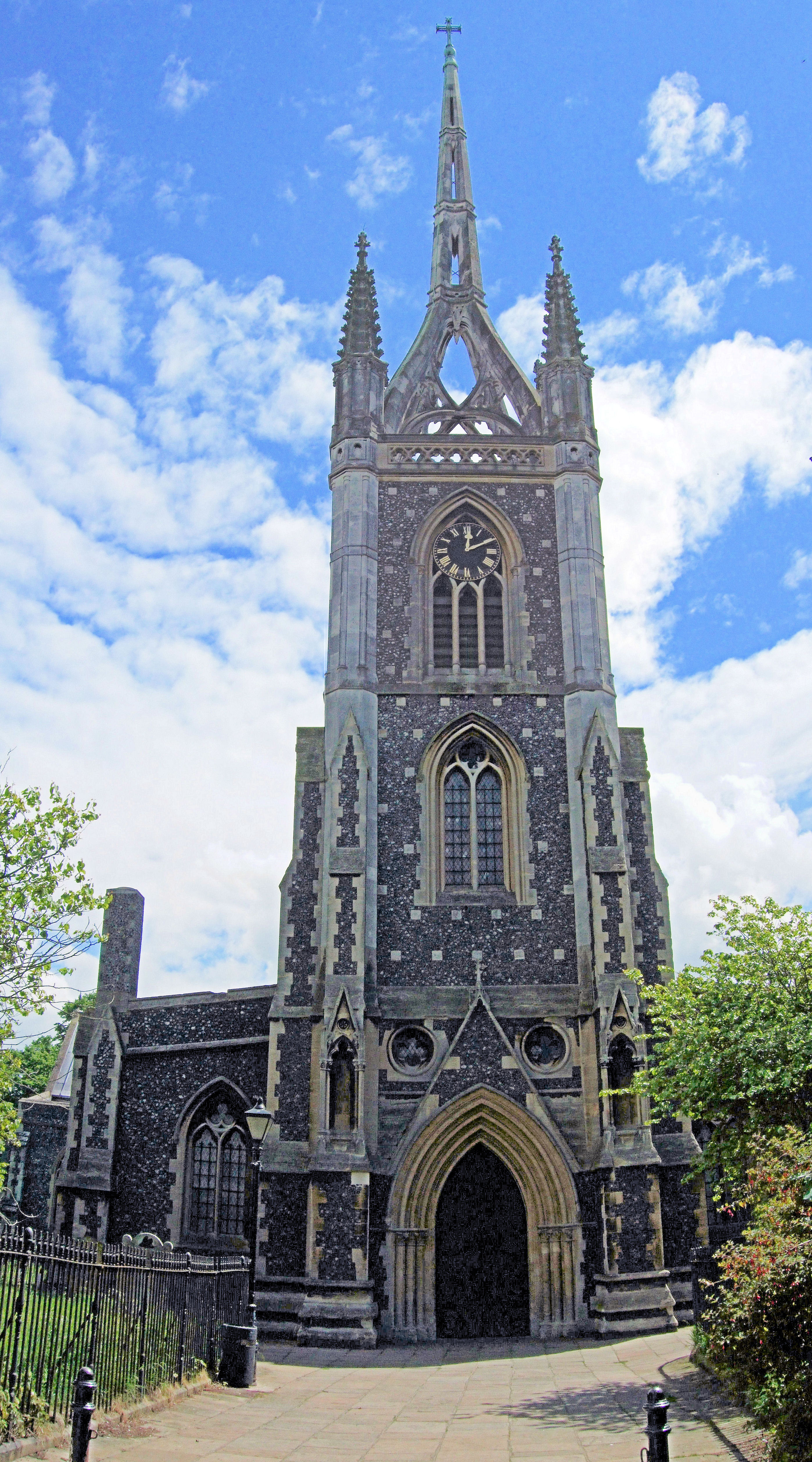 West tower and spire of St Mary of Charity parish church, Faversham, Kent. The tower and spire were built of brick in 1797. They are now encased in stone added by George Gilbert Scott in 1855.